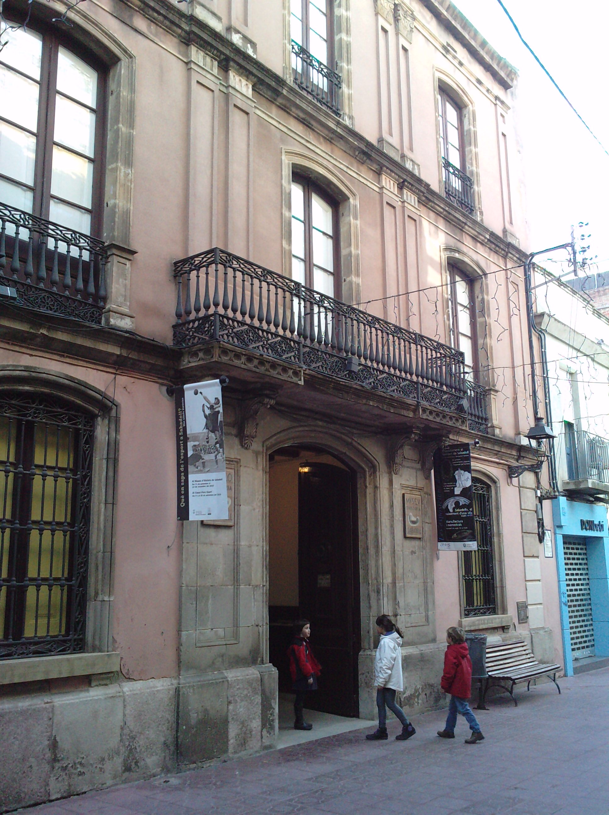 History Museum of Sabadell, Catalonia